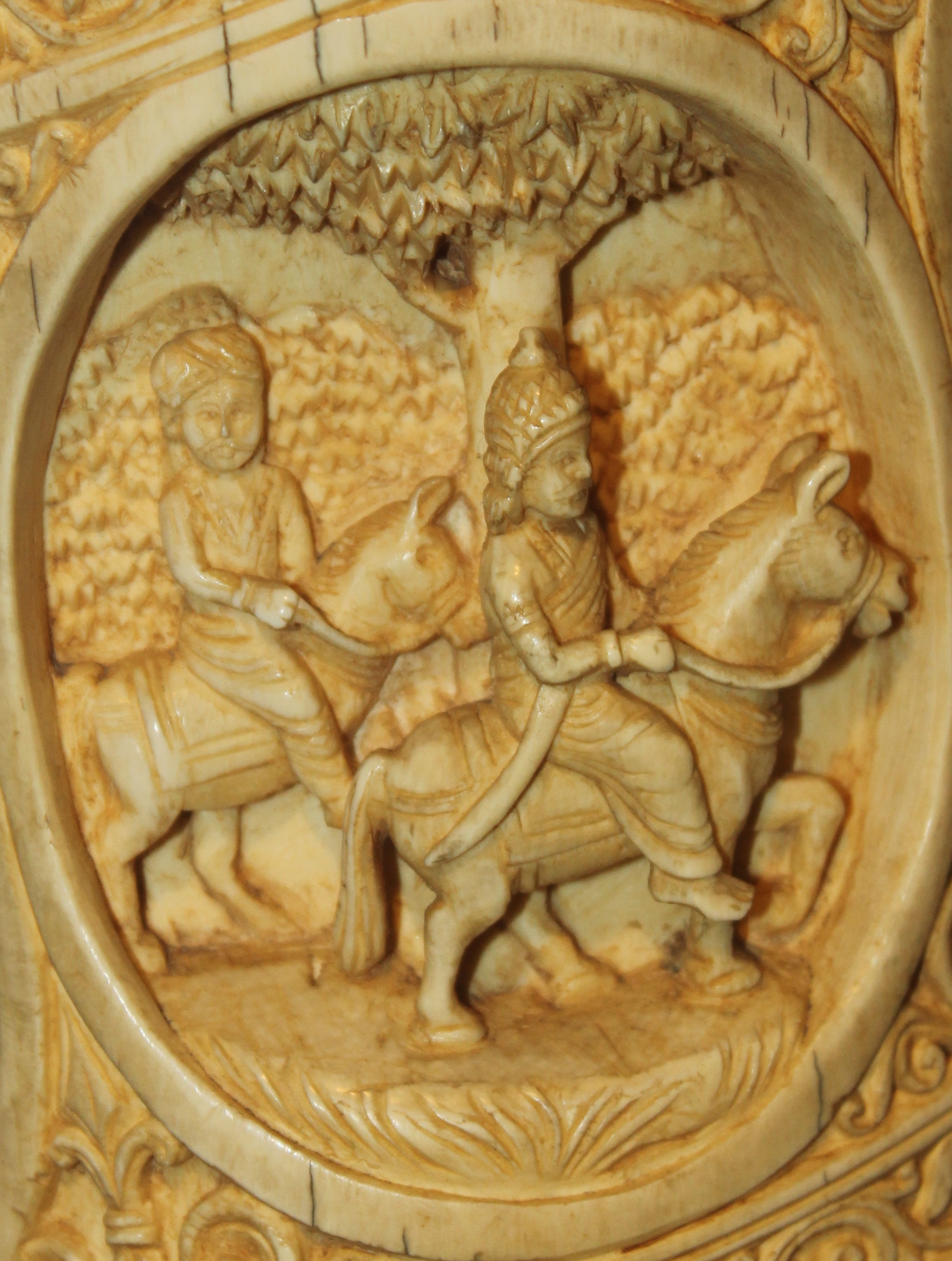 Roundel 18: Siddhartha and his attendant Chandaka leave the Palace